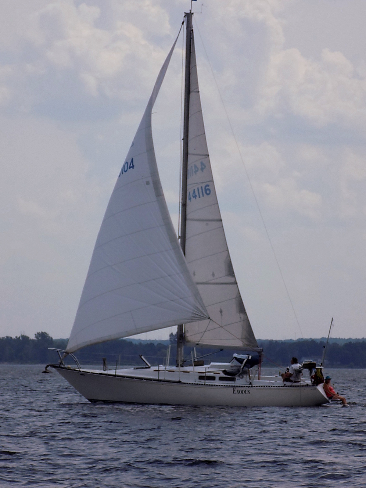 A C&C 33-1 sailboat named Exodus.